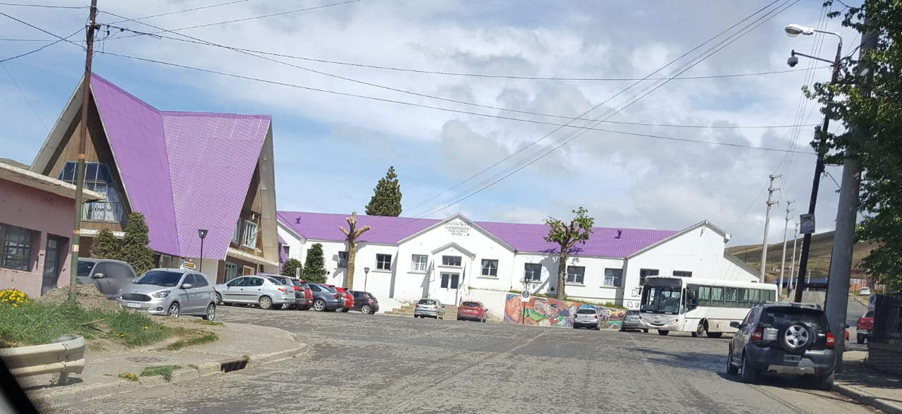 Vista frontal de la sede de Rio Turbio